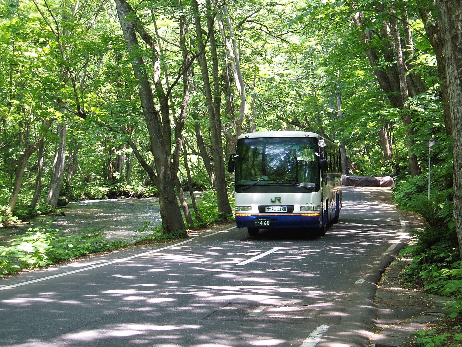 JR Bus Tohoku 647-8977 "Towada-hoku Line" Hino KC-RU3FSCB at Towada City